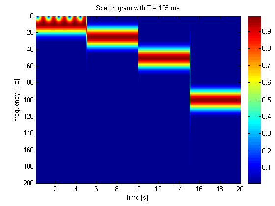 This picture is one of the four spectrograms I have created of the following signal: sampled at 400 Hz. I have created this picture and all the other three spectrograms with the following Matlab code, that is based on my stft script that you can find at User:Alejo2083/Stft script: clear all; %sampling frequency fc=400; %duration of the signal T=20; %zero padding factor my_zero=10; %generate the signal t=linspace(0,T,fc*T); x=zeros(1,length(t)); %thresholds th1=0.25*T*fc; th2=0.5*T*fc; th3=0.75*T*fc; th4=T*fc; x(1:th1)=cos(2*pi*10*t(1:th1)); x((th1+1):th2)=cos(2*pi*25*t((th1+1):th2)); x((th2+1):th3)=cos(2*pi*50*t((th2+1):th3)); x((th3+1):th4)=cos(2*pi*100*t((th3+1):th4)); %calculate and show the spectrograms [spectrogram, axisf, axist]=stft(x,10,1,fc,'blackman',my_zero); spectrogram=spectrogram/max(spectrogram(:)); figure,imagesc(axist,axisf,spectrogram), title('Spectrogram with T = 25 ms'), ylabel('frequency [Hz]'), xlabel('time [s]'), colorbar; [spectrogram, axisf, axist]=stft(x,50,1,fc,'blackman',my_zero); spectrogram=spectrogram/max(spectrogram(:)); figure,imagesc(axist,axisf,spectrogram), title('Spectrogram with T = 125 ms'), ylabel('frequency [Hz]'), xlabel('time [s]'), colorbar; [spectrogram, axisf, axist]=stft(x,150,1,fc,'blackman',my_zero); spectrogram=spectrogram/max(spectrogram(:)); figure,imagesc(axist,axisf,spectrogram), title('Spectrogram with T = 375 ms'), ylabel('frequency [Hz]'), xlabel('time [s]'), colorbar; [spectrogram, axisf, axist]=stft(x,400,1,fc,'blackman',my_zero); spectrogram=spectrogram/max(spectrogram(:)); figure,imagesc(axist,axisf,spectrogram), title('Spectrogram with T = 1000 ms'), ylabel('frequency [Hz]'), xlabel('time [s]'), colorbar; Feel free to improve the code, to speed it up or just make it clearer.